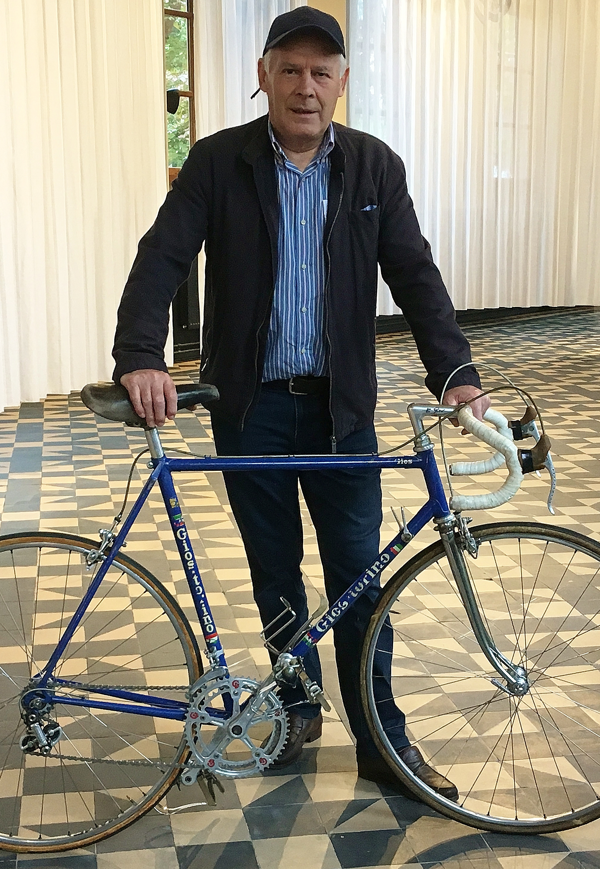 Johan De Muynck poses with his bike of Gios Torino from 1975. The racing bike was bought in 2019 by the association 'Vrienden van KOERS' (Friends of KOERS) from a collectionor. The 'Vrienden van KOERS' donates the bike to KOERS. Museum of Cycle Racing in Roeselare, Belgium.